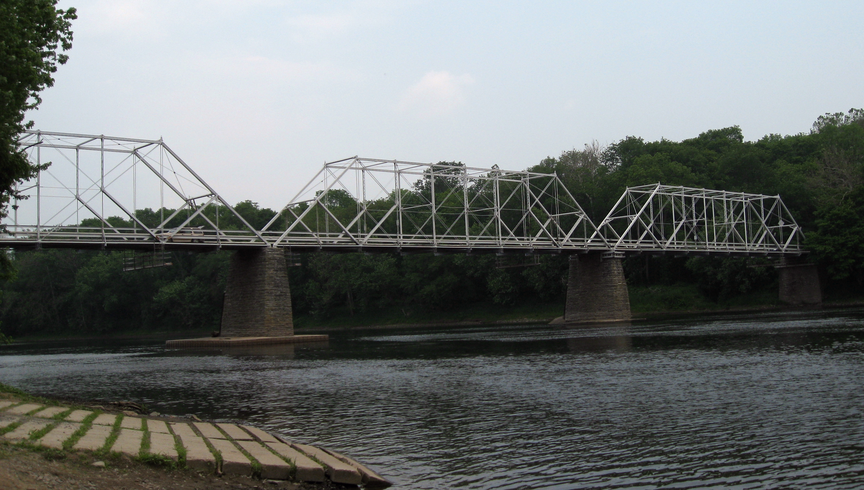 The three trusses of the Dingman's Ferry Bridge